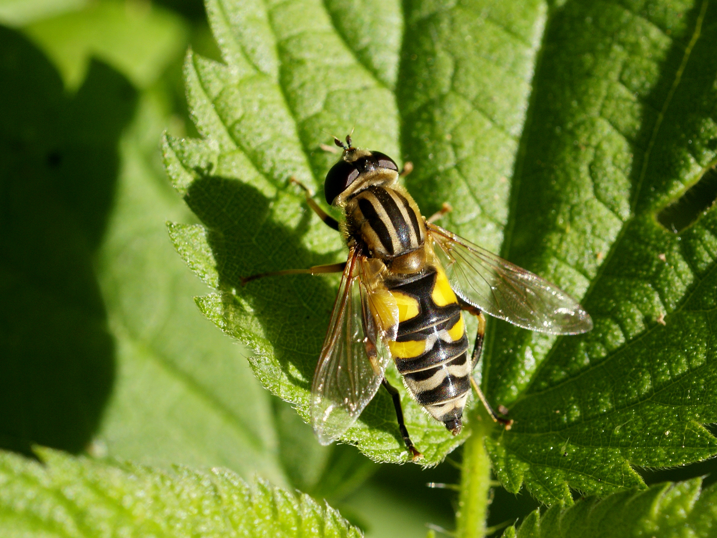 A hoverfly close to Zwarte Kiezel, De Haan, Belgium